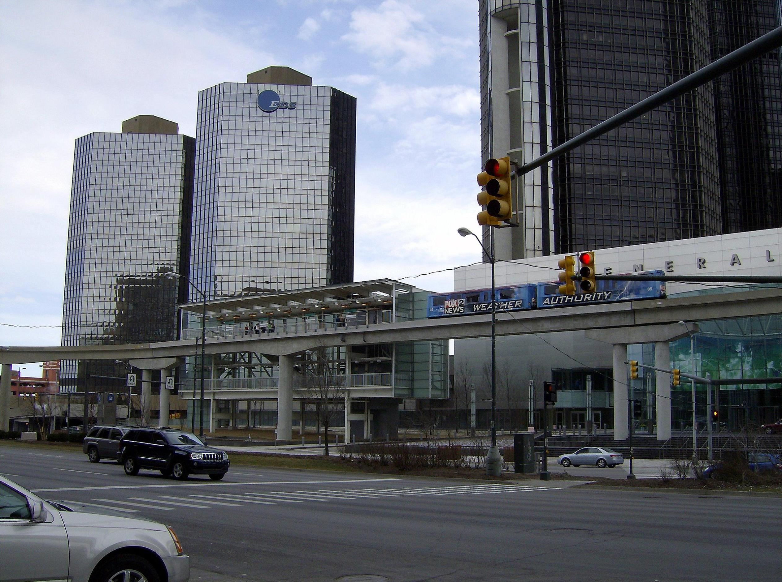 RenCen PeopleMover station